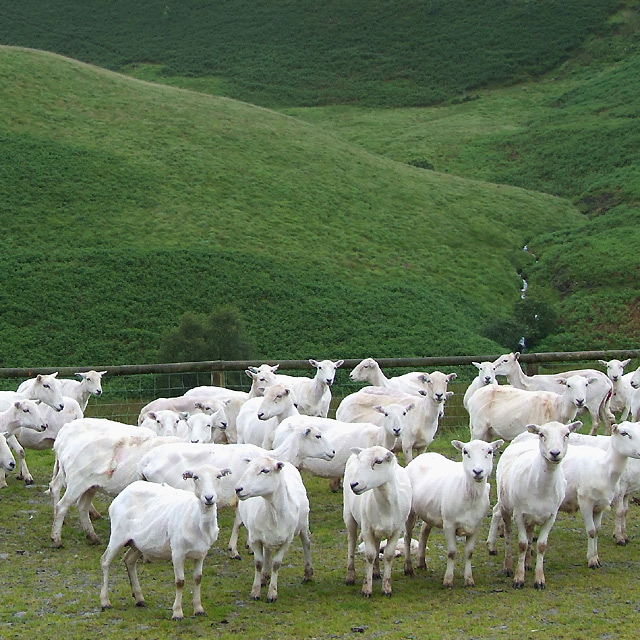 Ewes shorn of their coats, in Llanddewi Brefi in Wales. Nant Coli can be seen descending the hill opposite.